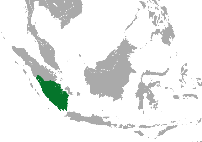 Sumatran Giant Shrew (Crocidura lepidura) range